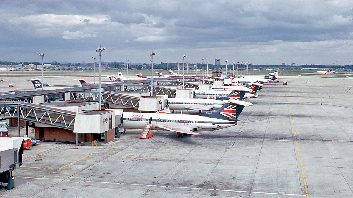 London Heathrow Airport, 1971.A line-up of Hawker Siddeley Trident aircraft (G-ARPJ in the foreground) of British European Airways (BEA) at London Heathrow Airport Terminal 1 in 1971, over 40 years ago.